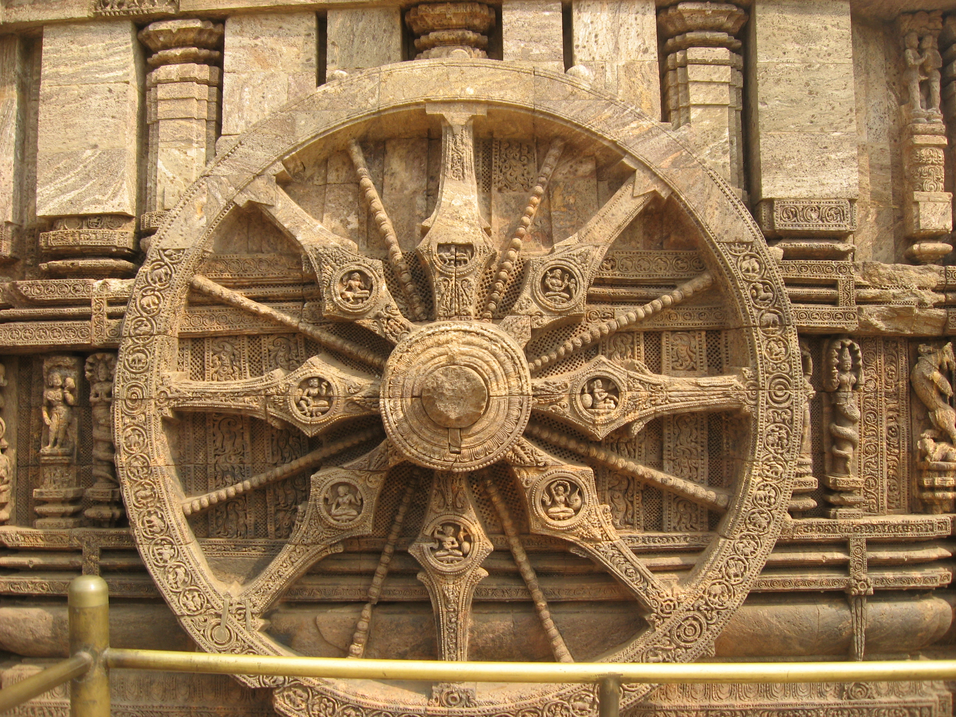 Konark Sun Temple is a 13th-century Sun Temple (also known as the Black Pagoda), at Konark, in Orissa. It was constructed from oxidizing and weathered ferruginous sandstone by King Narasimhadeva I (1236-1264 CE) of the Eastern Ganga Dynasty. The temple is one of the most well renowned temples in India and is a World Heritage Site.